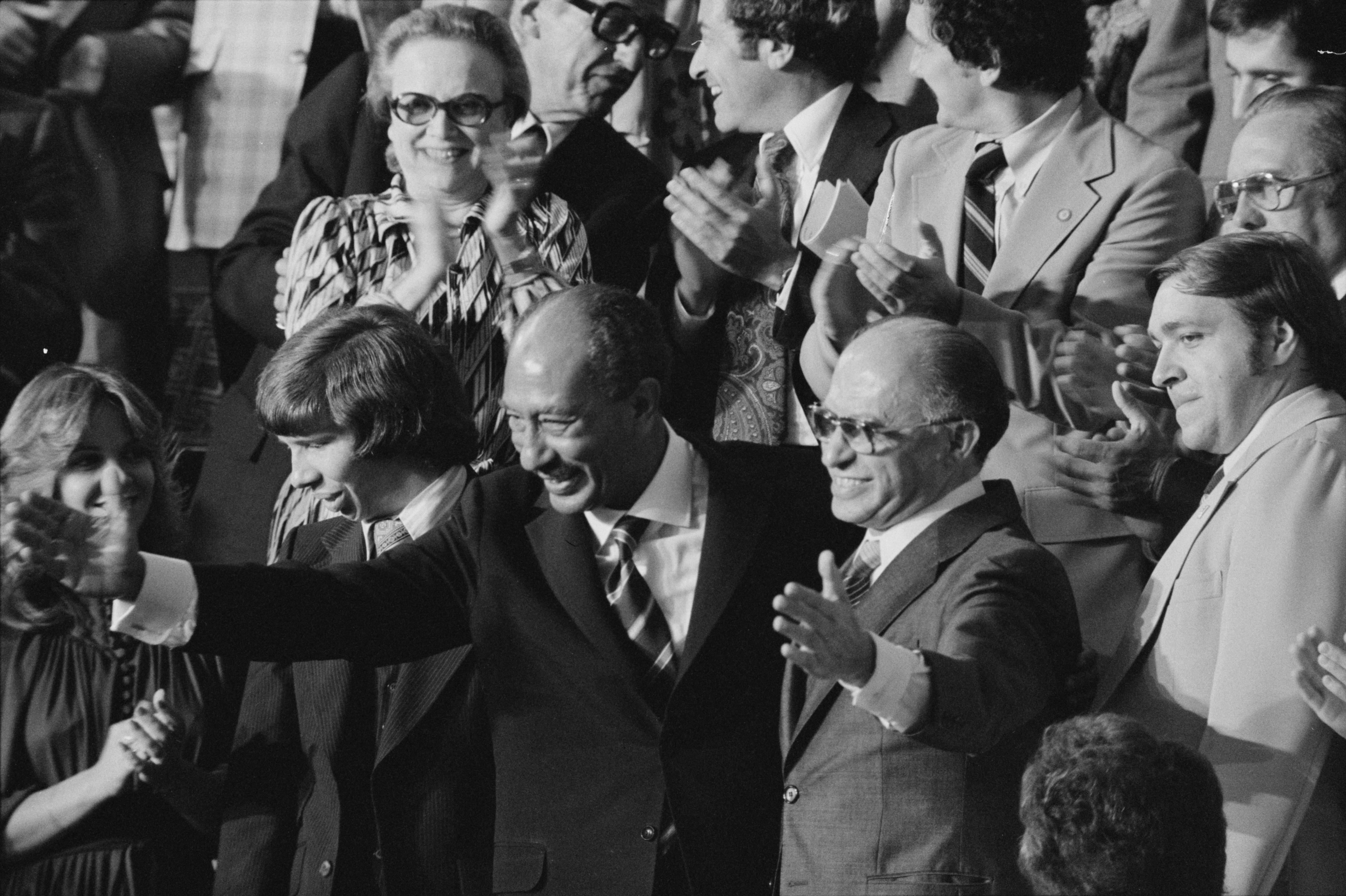 Egyptian President Anwar Sadat and Israeli Prime Minister Menachem Begin acknowledge applause during a Joint Session of Congress in which President Jimmy Carter announced the results of the Camp David Accords.